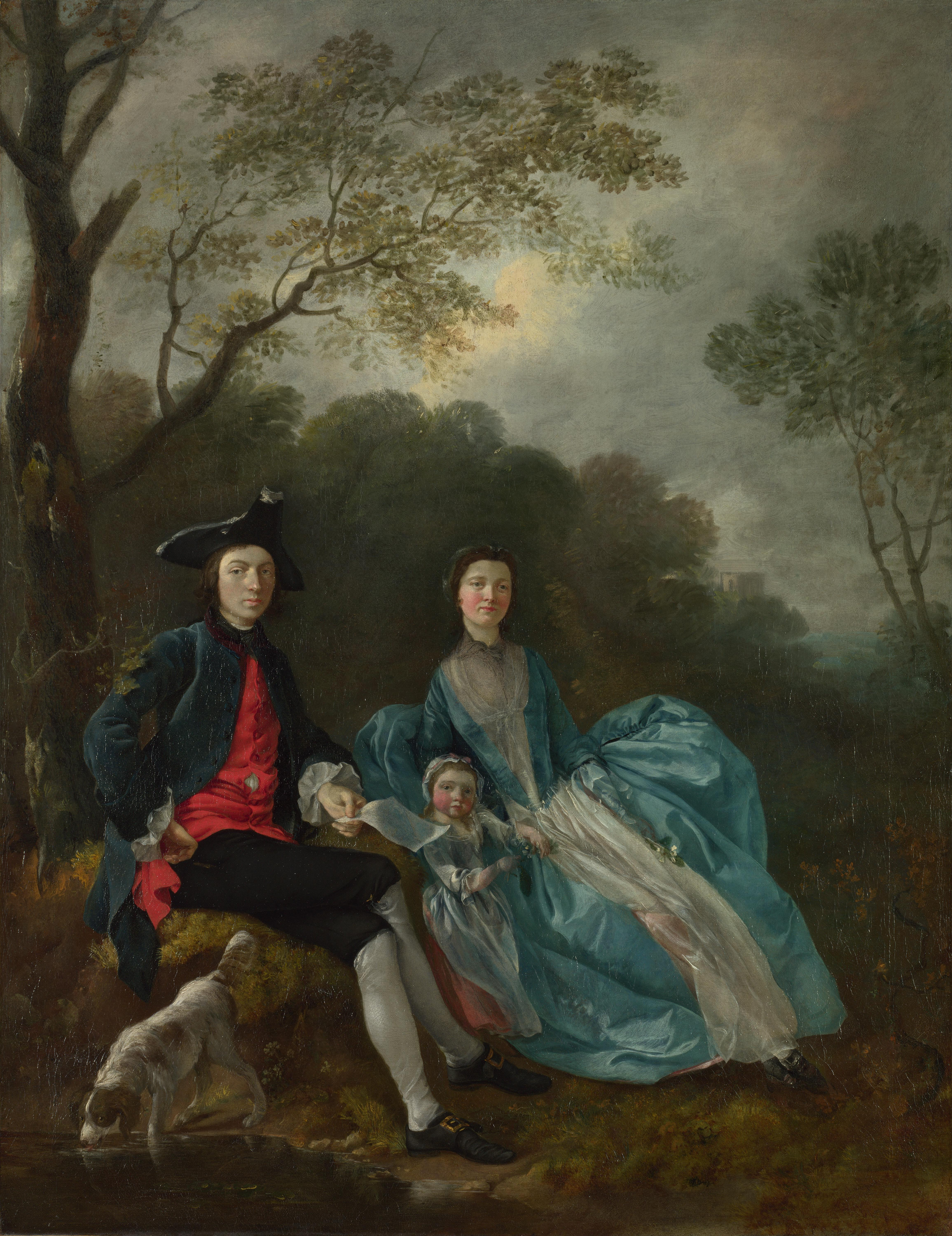 The only known portrait in which Gainsborough included himself with his family. With him are his wife, Margaret Burr, whom he married in July 1746, and their daughter.[1] ↑ National Gallery, London - online catalogue.